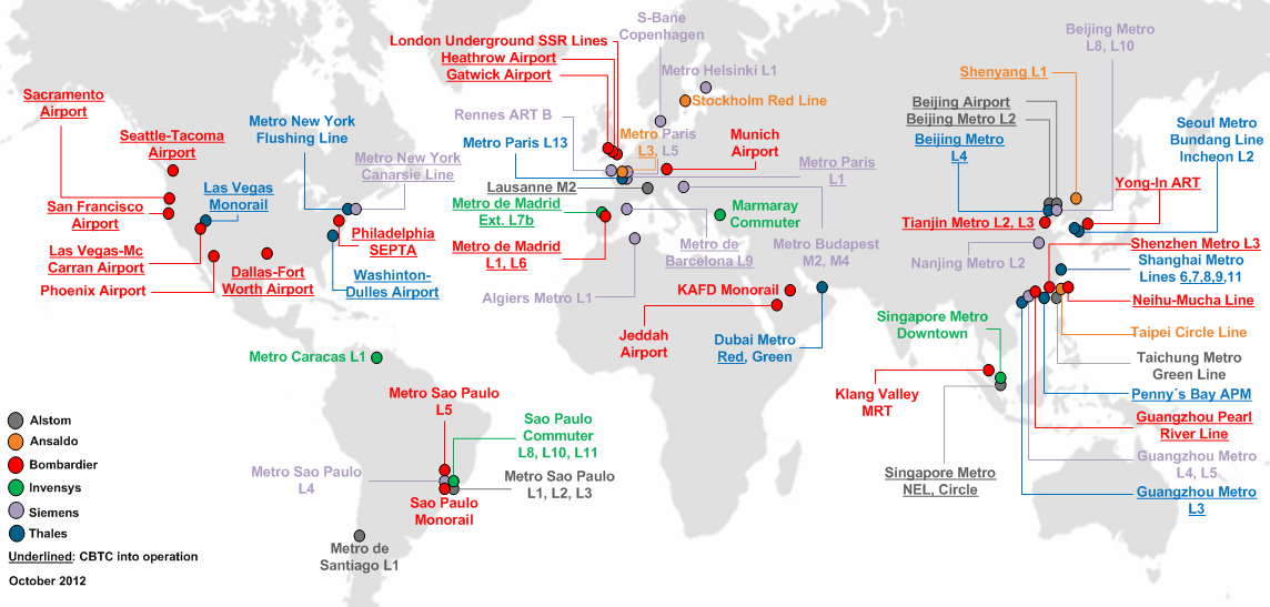 Radio-based CBTC projects around the world